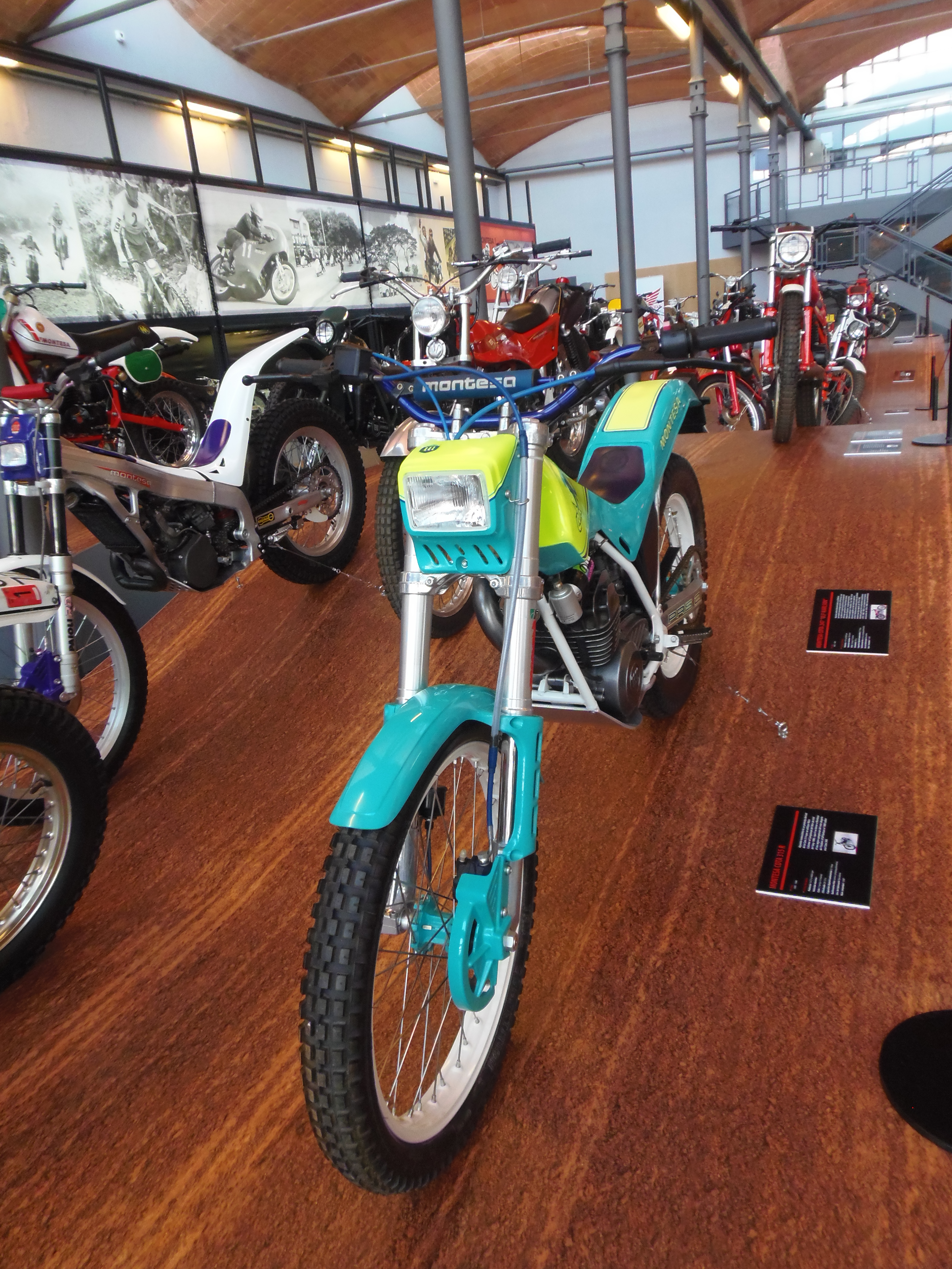 Montesa Cota 310, 1990